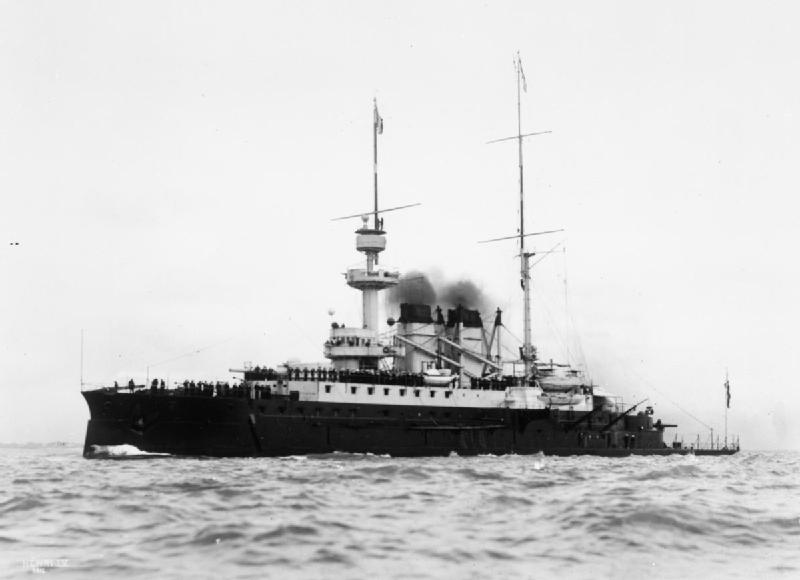 Symonds and Co Collection French Cruiser HENRI IV. 1905.